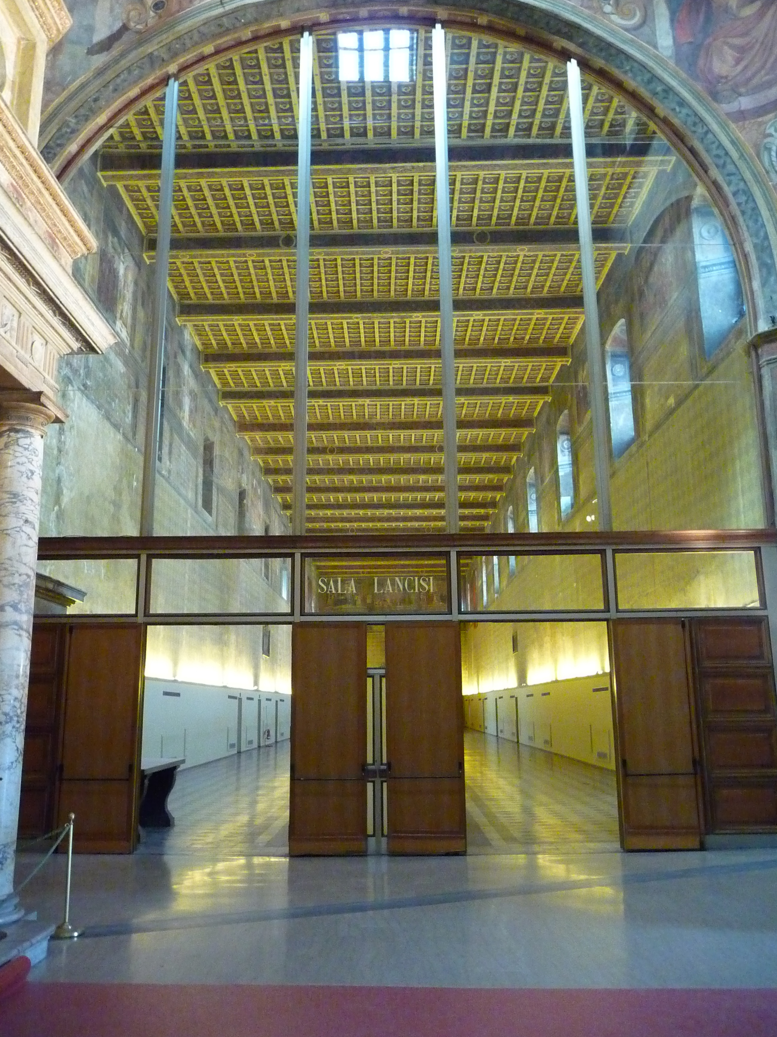 Santo Spirito in Sassia, Rome. Corsia Sistina, Sala Lancisi.